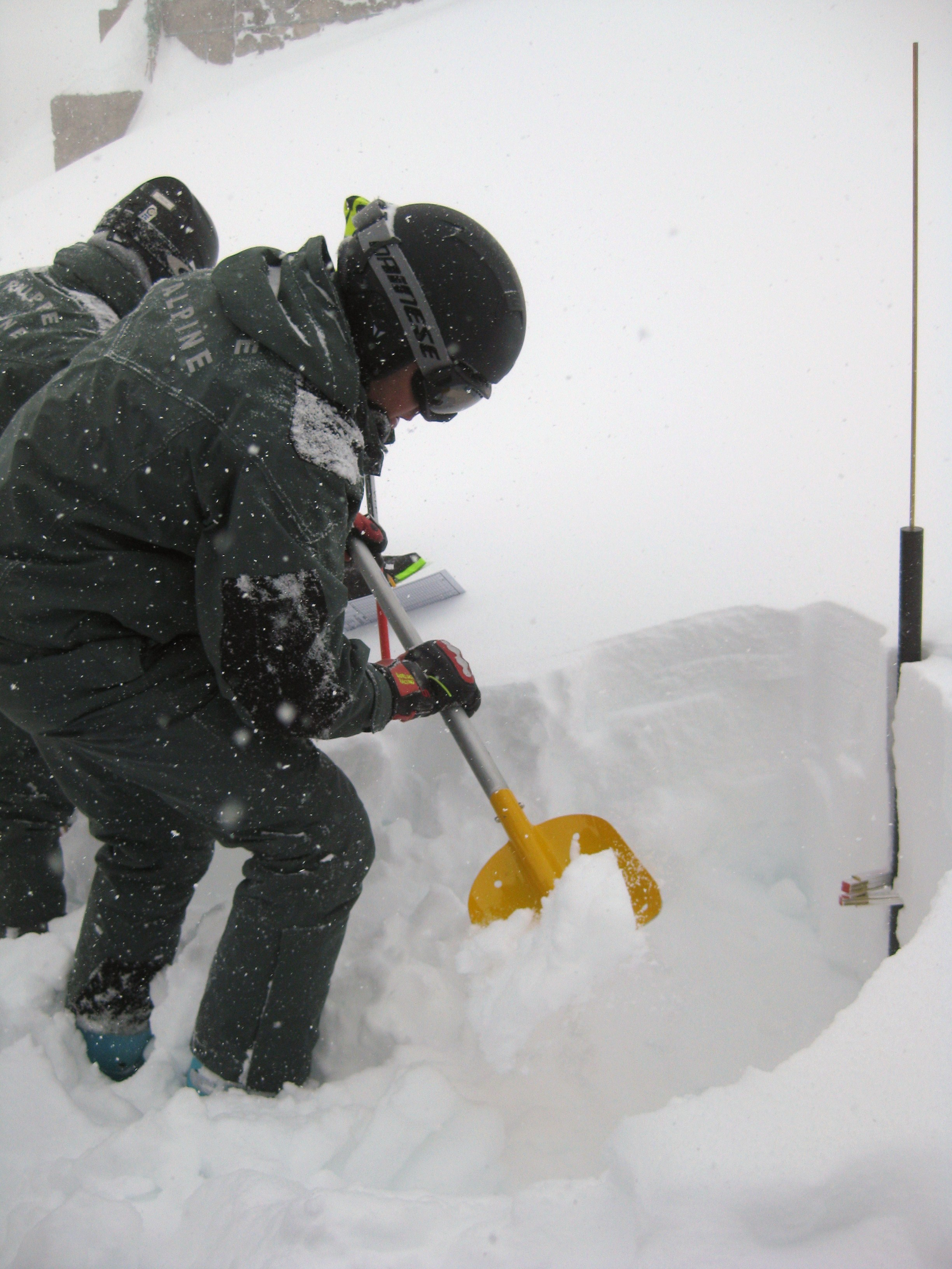 An Italian Army Truppe Alpini Meteomont instructor prepares an initial assessment of the snow pack.